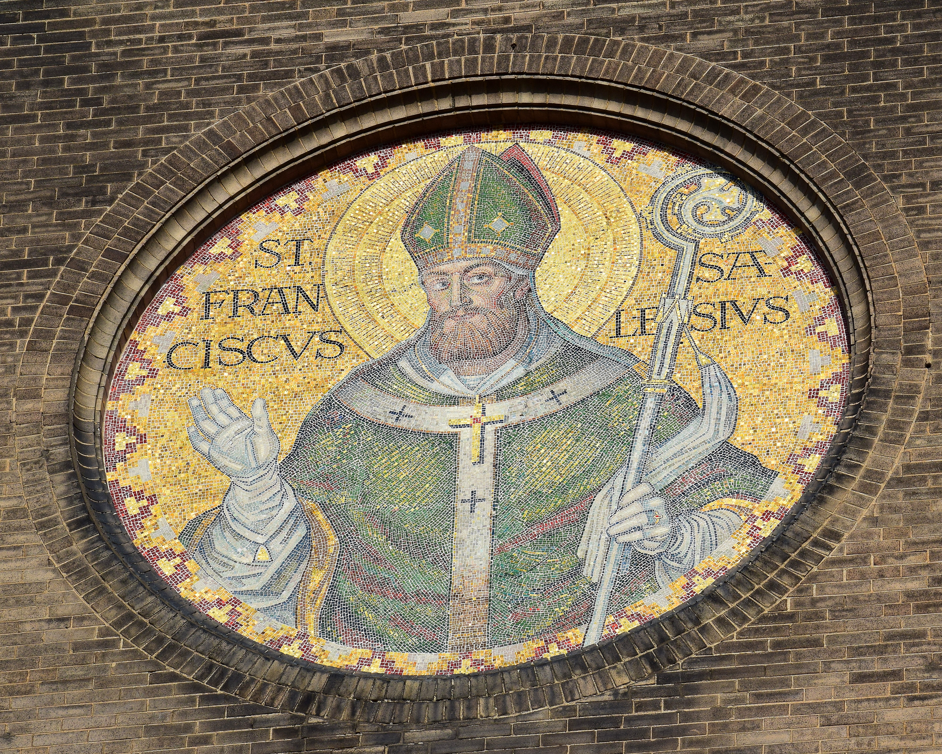 Saint Francis de Sales Oratory (St. Louis, Missouri) - St. Francis de Sales mosaic